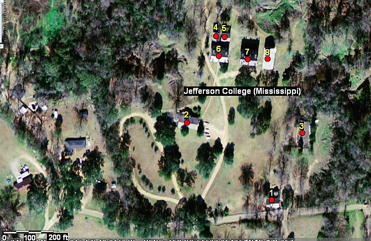 Aerial view of Jefferson College (Mississippi) showing locations of historic buildings.